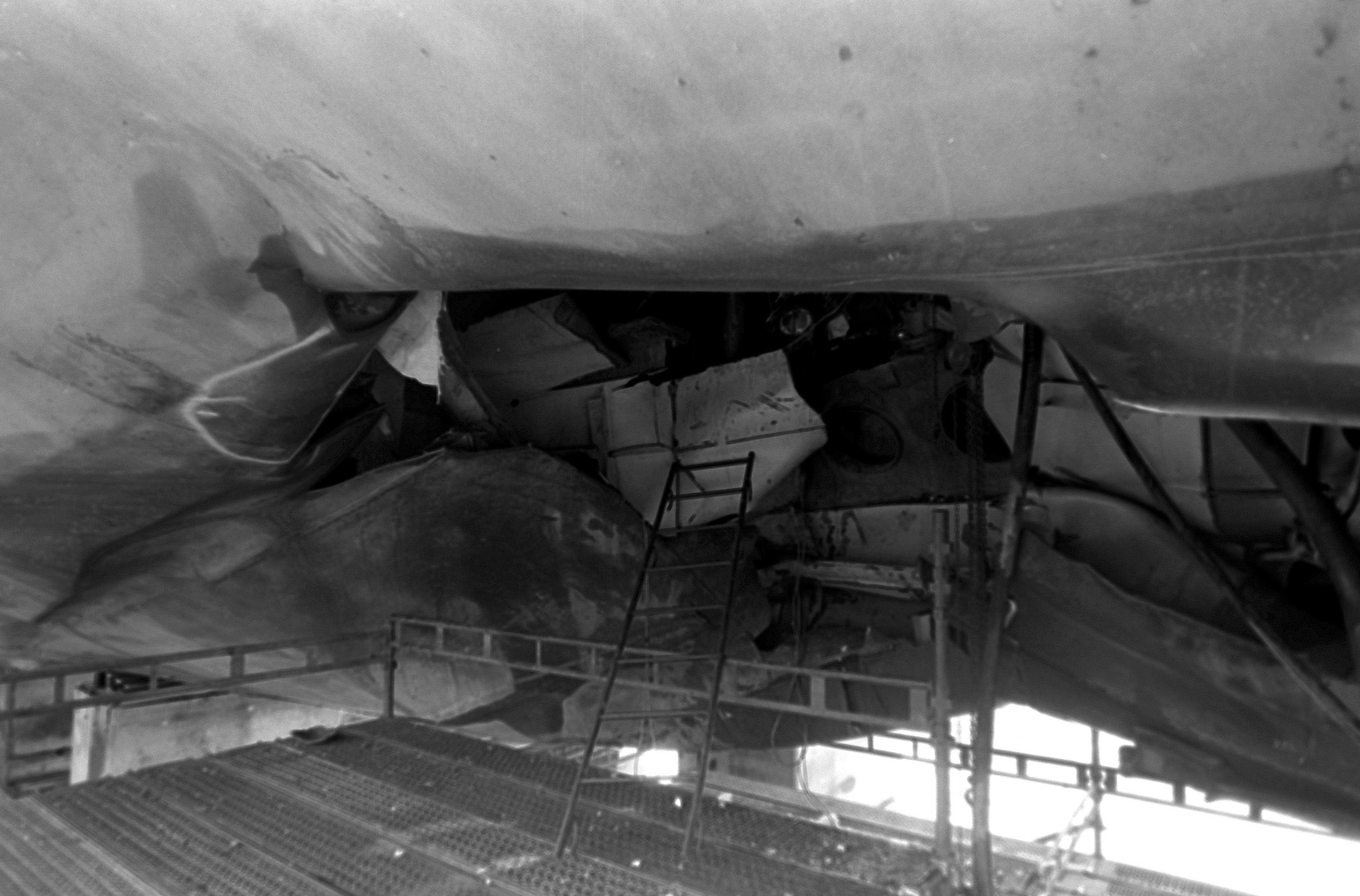 A view of damage to the hull of the guided missile frigate USS SAMUEL B. ROBERTS (FFG-58) sustained when the ship struck a iranian naval mine while on patrol in the Persian Gulf on April 14, 1988. The ship is in dry dock in Dubai, UAE, undergoing temporary repairs.